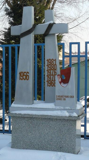 Monument of Poznan Uprising 1956 (model - HCP Industry).